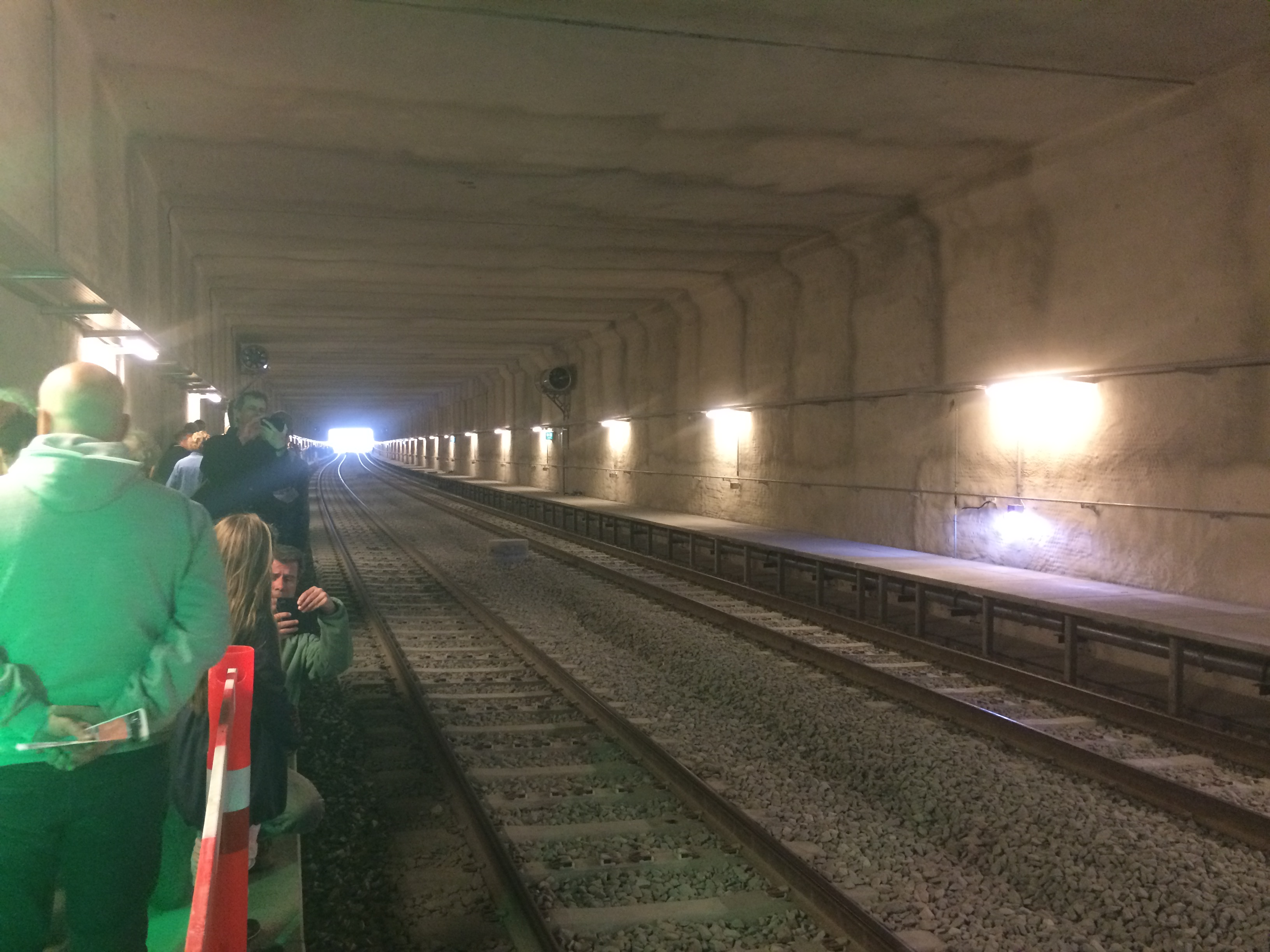 København-Køge-Ringsted-banen - Hvidovretunnelen in 2017 before opening